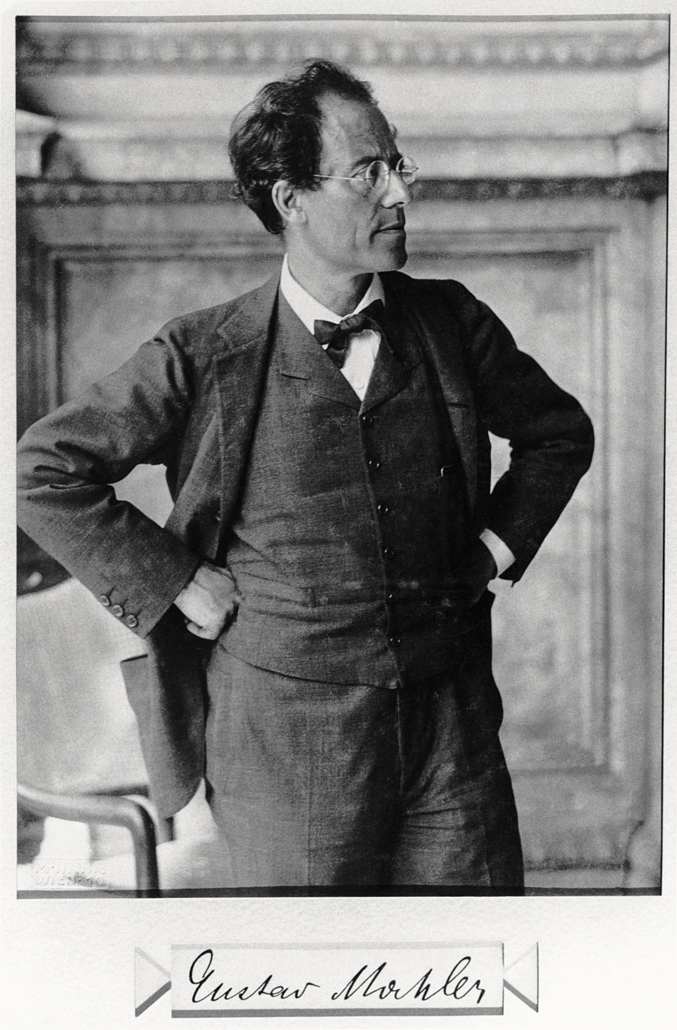 Gustav Mahler (1860-1911), austrian composer, conductor and pianist. His signature. Picture taken in the hall of the Opera of Vienna.